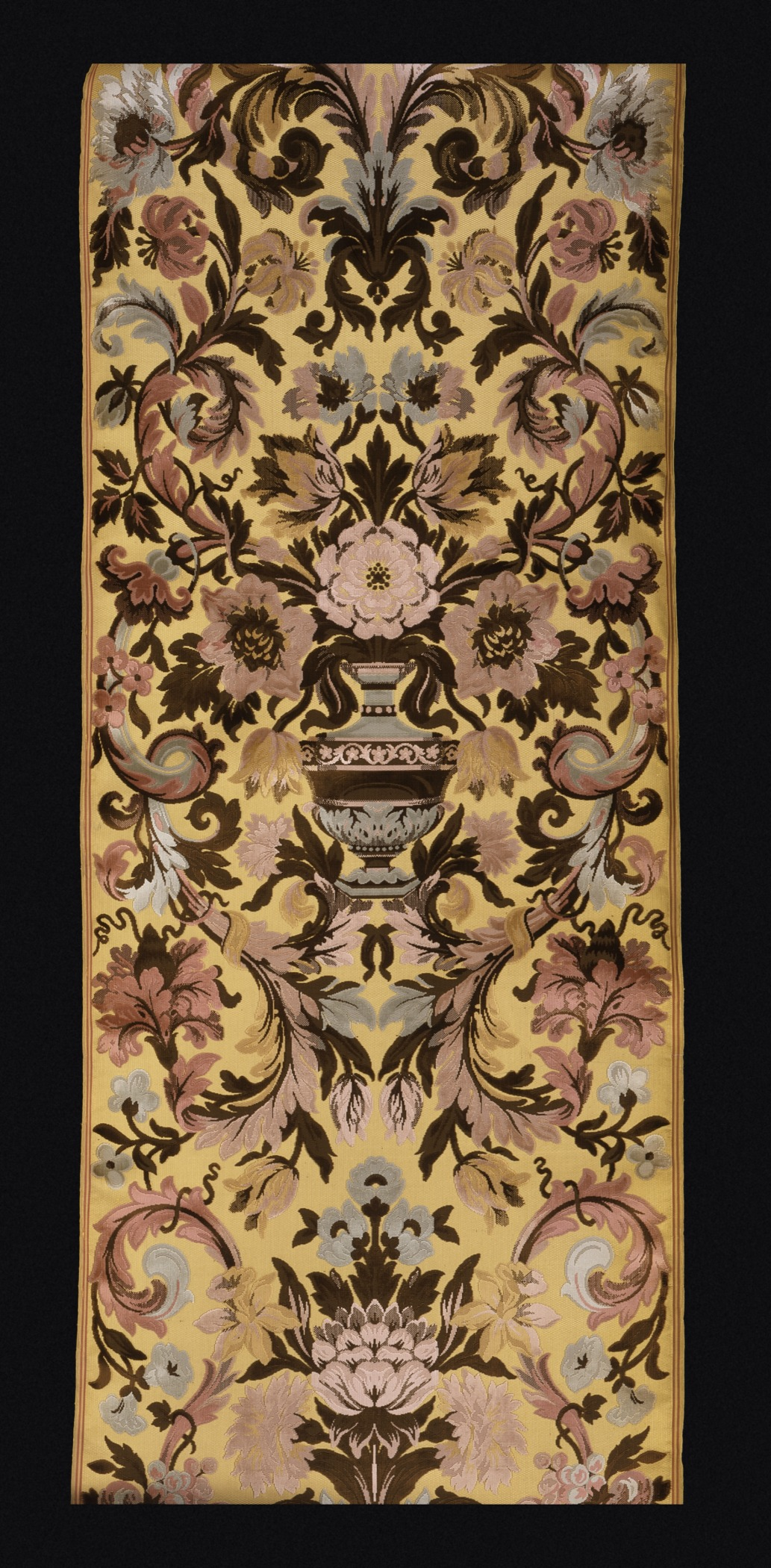 France, Lyon, 1876 Textiles Silk and linen, cut and uncut voided velvet on satin ground 65 1/2 x 21 3/4 in. (166.37 x 55.25 cm) Costume Council Fund (AC1998.85.2) Costume and Textiles